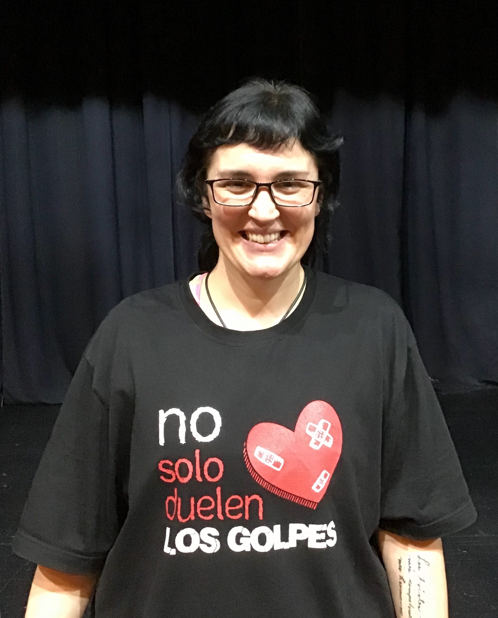 Pamela Palenciano in 2019.